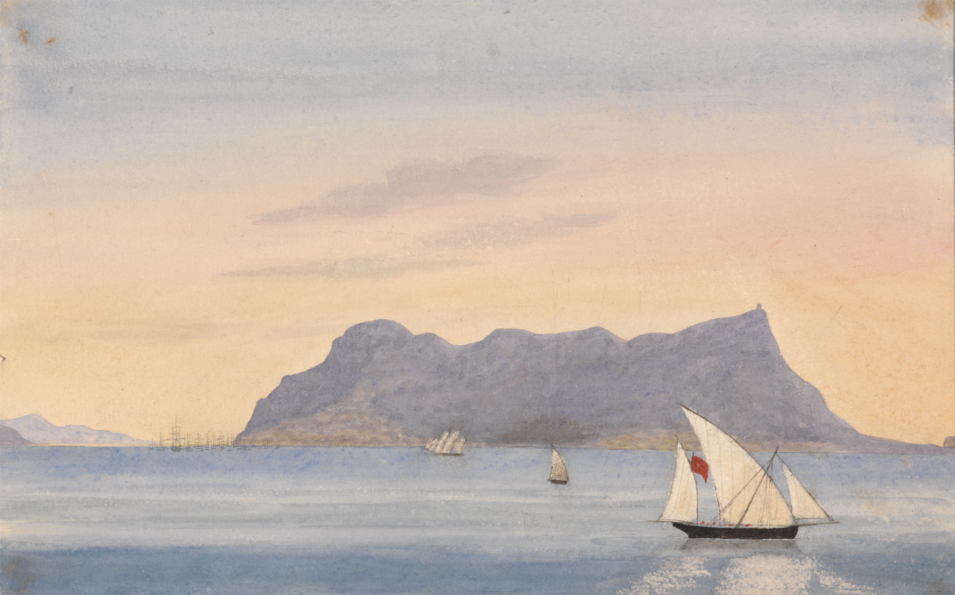 The Rock of Gibraltar from Algeciras by George Lothian Hall, 1825-1888 from Yale Center for British Art, Paul Mellon Collection